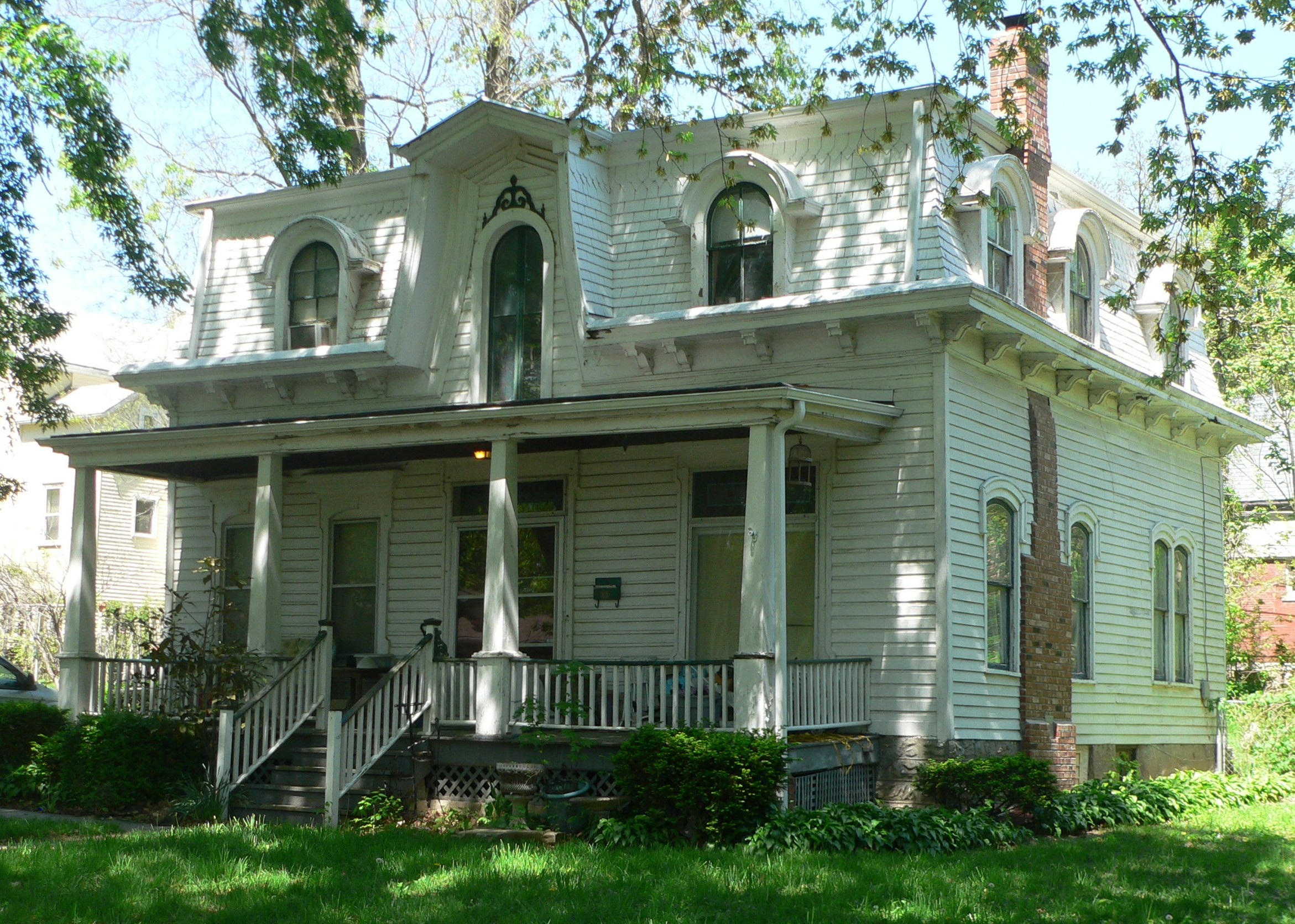 Balie P. Waggener house, at 415 W. Riley Street in Atchison, Kansas; seen from the southeast.